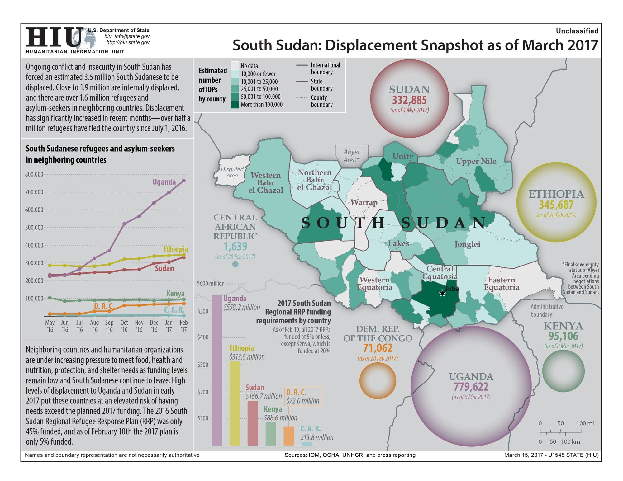 Ongoing conflict and insecurity in South Sudan has forced an estimated 3.5 million South Sudanese to be displaced. Close to 1.9 million are internally displaced, and there are over 1.6 million refugees and asylum-seekers in neighboring countries. Displacement has significantly increased in recent months—over half a million refugees have fled the country since July 1, 2016. Neighboring countries and humanitarian organizations are under increasing pressure to meed food, health and nutrition, protection and shelter needs as funding levels remain low and South Sudanese continue to leave. High levels of displacement to Uganda and Sudan in early 2017 put these countries at an elevated risk of having needs exceed the planned 2017 funding. The 2016 South Sudan Regional Refugee Response Plan (RRP) was only 45% funded, and as of February 10th the 2017 plan only 5% funded.